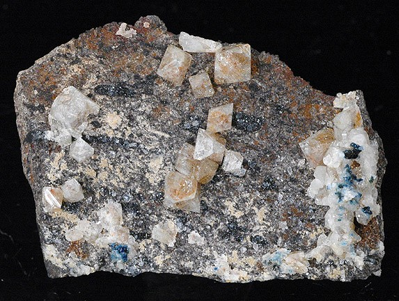 Wardite Locality: Rapid Creek, Dawson Mining District, Yukon Territory, Canada (Locality at ) Size: 6.4 x 4.7 x 2.0 cm. Wardite is a relatively rare phosphate, and some of the most beautiful (and well known) crystals of the material are found in the Yukon Territory. This area is only accessible for a few months per year and is rather treacherous terrain for collecting specimens. This piece is comprised of some very attractive, sharp, lustrous, tetragonal crystals of Wardite with minor blue Lazulite on matrix. The largest Wardite measures 0.7 cm across.